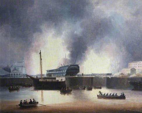 Dockyard Fire, 1840, by Thomas Lyde Hornbrook LLR NELMS A 141-001 View of the Fire in Her Majesty's Dock Yard, Devonport, on the morning of the 27th September 1840 North East Lincolnshire Museum